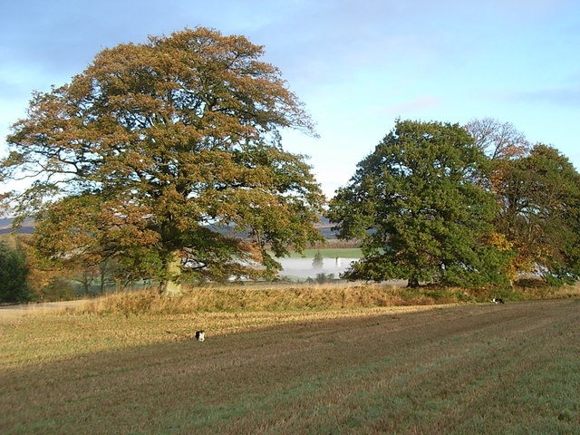 Rottenreoch chambered cairn Rottenreoch chambered cairn with East Lochlane Farm